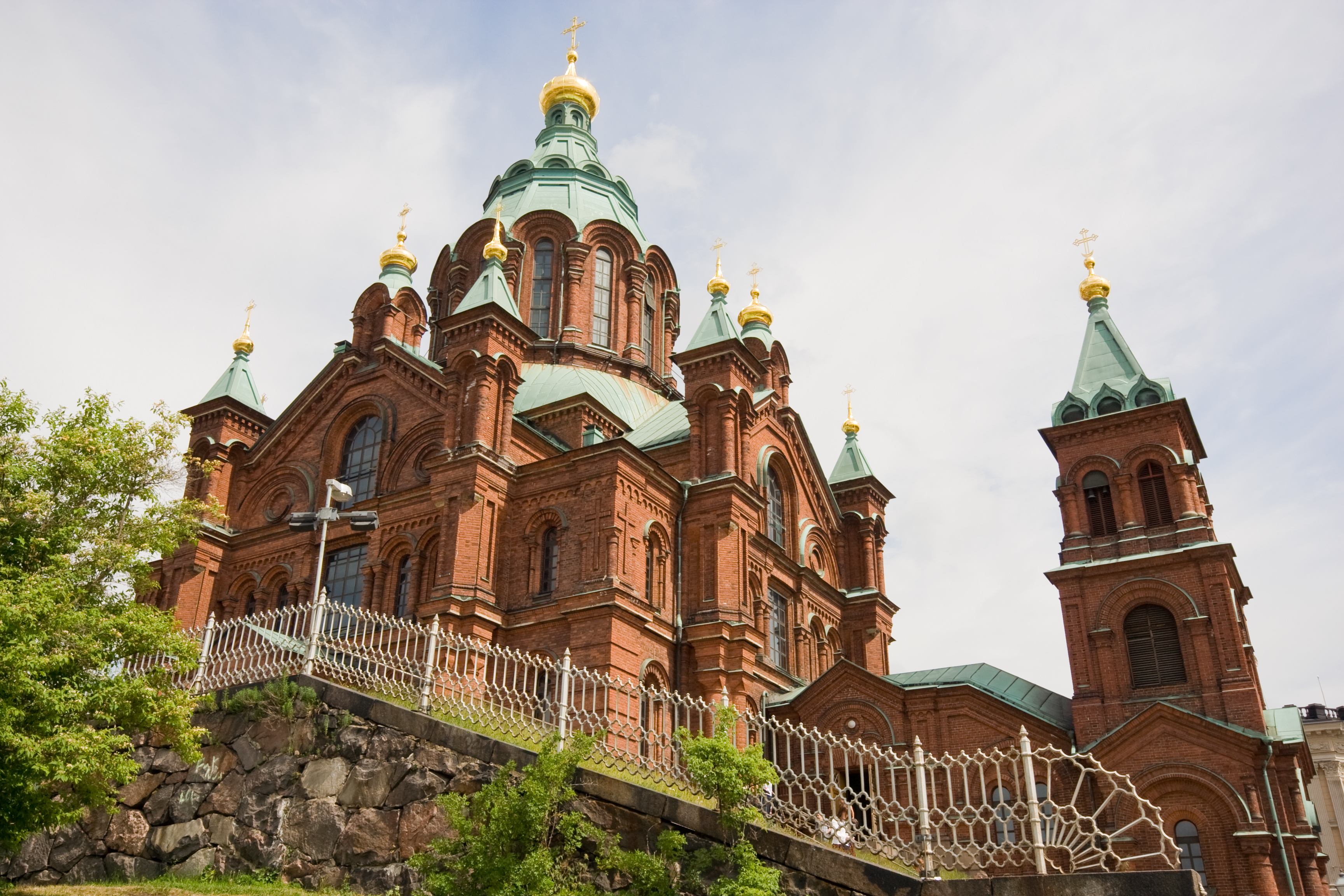 Uspenski Cathedral - the largest orthodox church in Western Europe